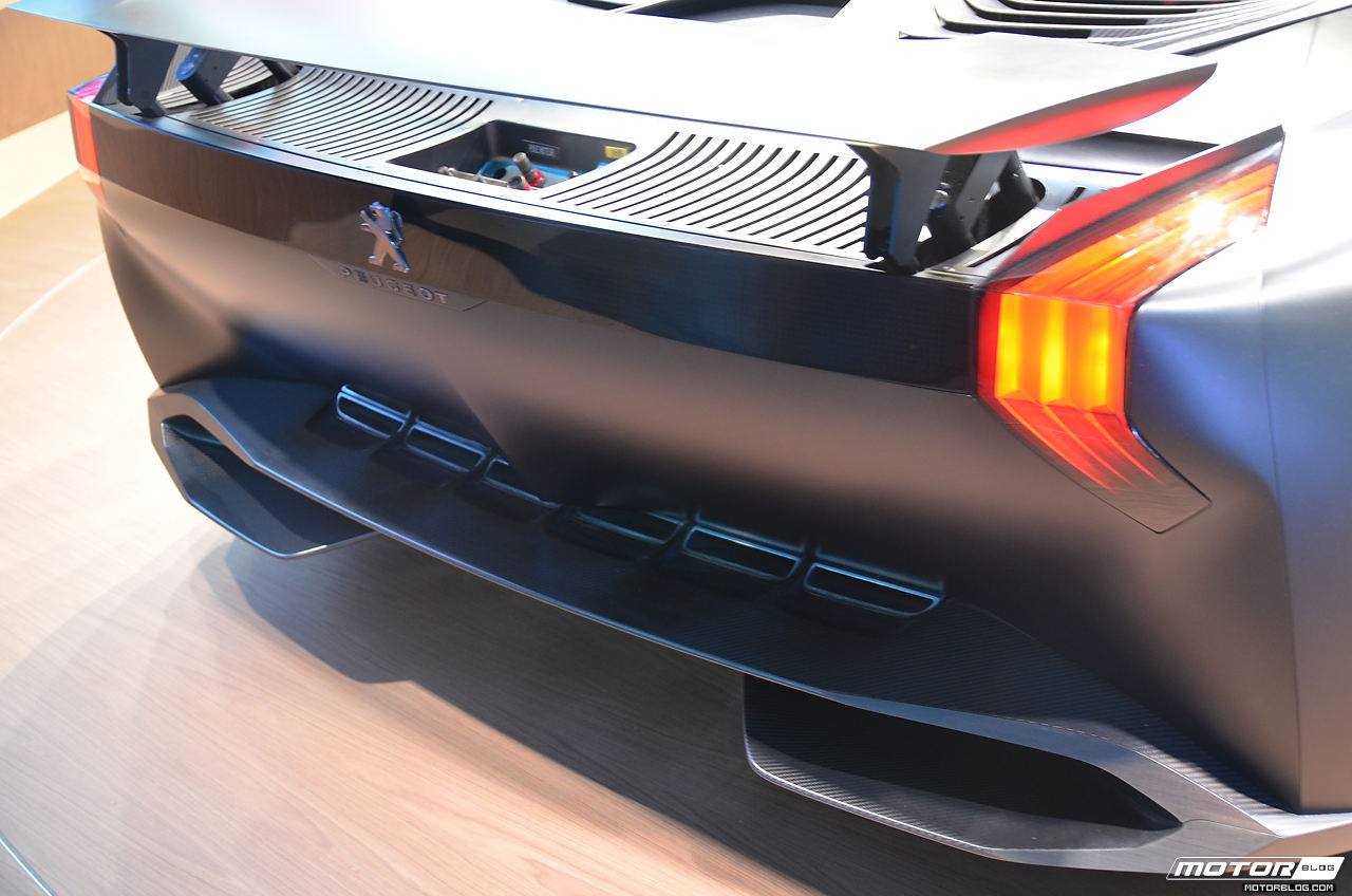 IAA Frankfurt 2013: Peugeot Onyx / Photo: Raphael Jahn ______________________ Please feel free to use this image for FREE under the Creative Commons (CC) licence. However, if you use the image, pls set a backlink to and give credit as following: "Image: ". For highres images or any other inquiries pls contact mailto: . Thanks.